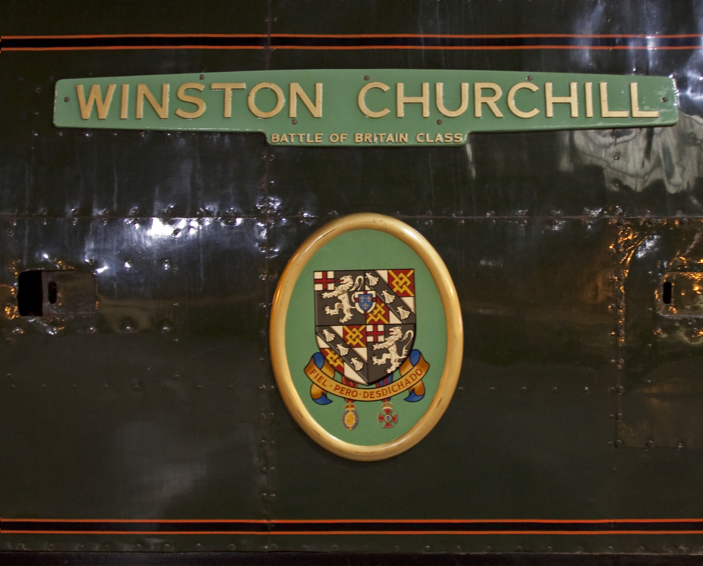 Nameplate and coat of arms on SR Battle of Britain class locomotive 34051 Winston Churchill